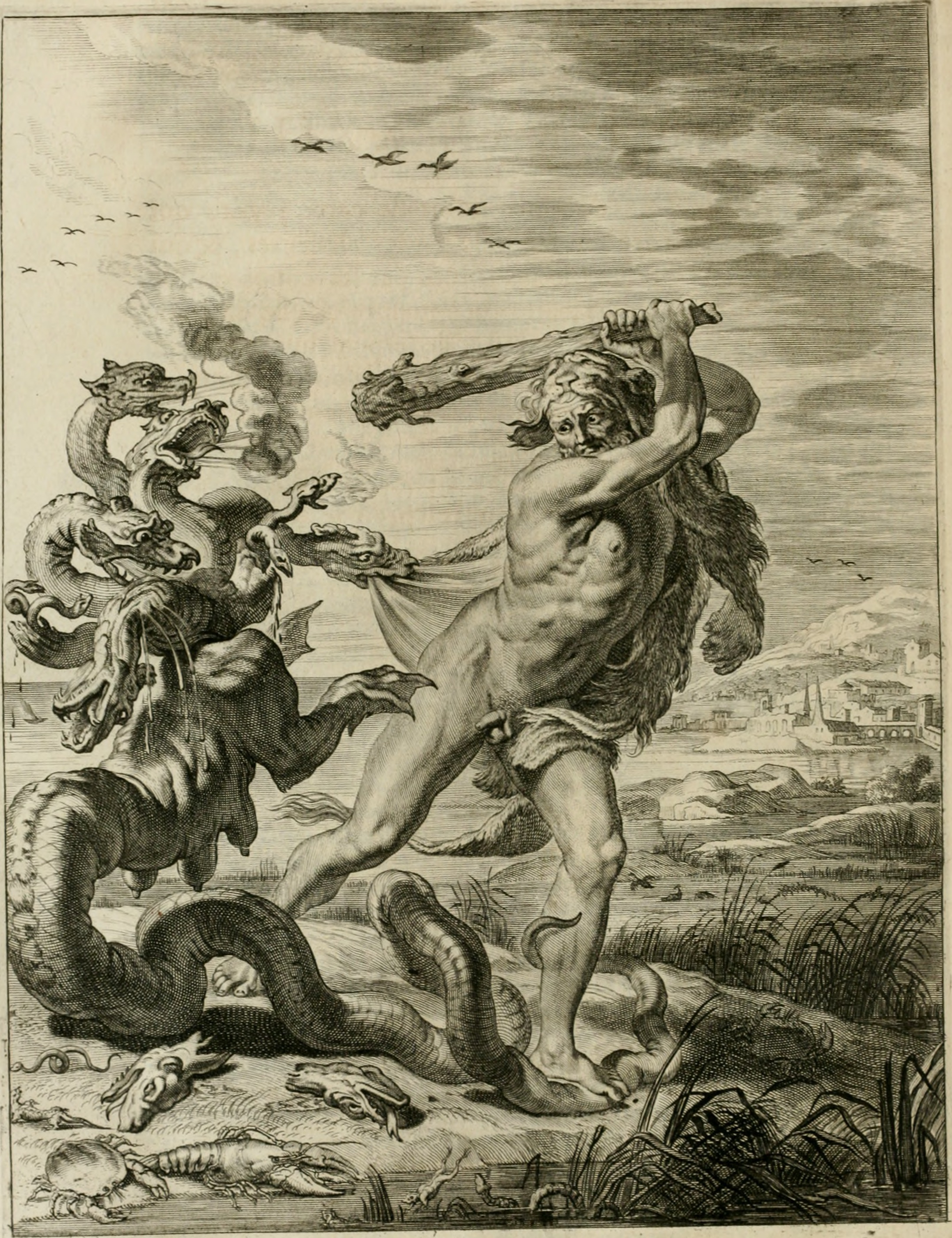 Title: Tableaux du temple des muses : tirez du cabinet de feu Mr. Fauereau, conseiller du roy en sa Cour des aydes, & grauez en tailles-douces par les meilleurs maistres de son temps, pour representer les vertus & les vices, sur les plus illustres fables de l'antiquité Year: 1655 (1650s) Authors: Marolles, Michel de, 1600-1681 Bloemaert, Cornelis, 1603-1692 Diepenbeeck, Abraham van, 1596-1675 Brebiette, Pierre, 1598?-1642 Langlois, Nicolas, 17th cent Subjects: Favereau, Jacques, 1590-1675 Mythology, Classical, in art Painting, European Publisher: A Paris : Chez Nicolas L'Anglois, ruë Sainct Iacques, aux Colomnes d'Hercule Text Appearing Before Image: e difcours dvn ignorant,^ le vifage dvn laid ami,de ce quelle égale hardiment« àlatefte dHercule qui enleue de terre A ntée, le col long dvn homme efféminé,« &: de ce quelle admire vne voix grefle , auec laquelle celuy-cy fait vn bruit de« plus niauuaife grâce que la poule quand elle eft pincée du coq. (^uid? ejuod aduUndi gens prudentijstma iaudat? &C.« Dans la 8. Satyre il demande: pourquoy Fabius qui eft de la race dHercule, fc« glorifie des Allobroges vaincus, & du grand Autel bafty par fesAnceftres, sil eft vn homme ambitieux & vain, & sil eft plus mol quvne ieune brebis du pais•• des Enganeens ? Cur AllobrogicH, & magna gaudeat ara, &c. Et fur la fin de la I o. Satyre : Demande, dit-il, vn efprit qui eftimc dauantage« les peines dnercule, &: fes longs trauaux, que les dchces, les fcftins, &: les plu-i mes de Sardanapale. Et potiores Herculù xrumnds credat,fiuofque labores£t Vtnere, & (4Rii,&flumn Sardanapali. LHYDRE. Text Appearing After Image: Kt nitlium caput est imyiinc rmium, LHyare st tmyiinc rrciiumOtun cjcntino ci-rutyr^ kcrreie vaLenttor ^1 ^^ ■ Ouidc). mctam 2j 179